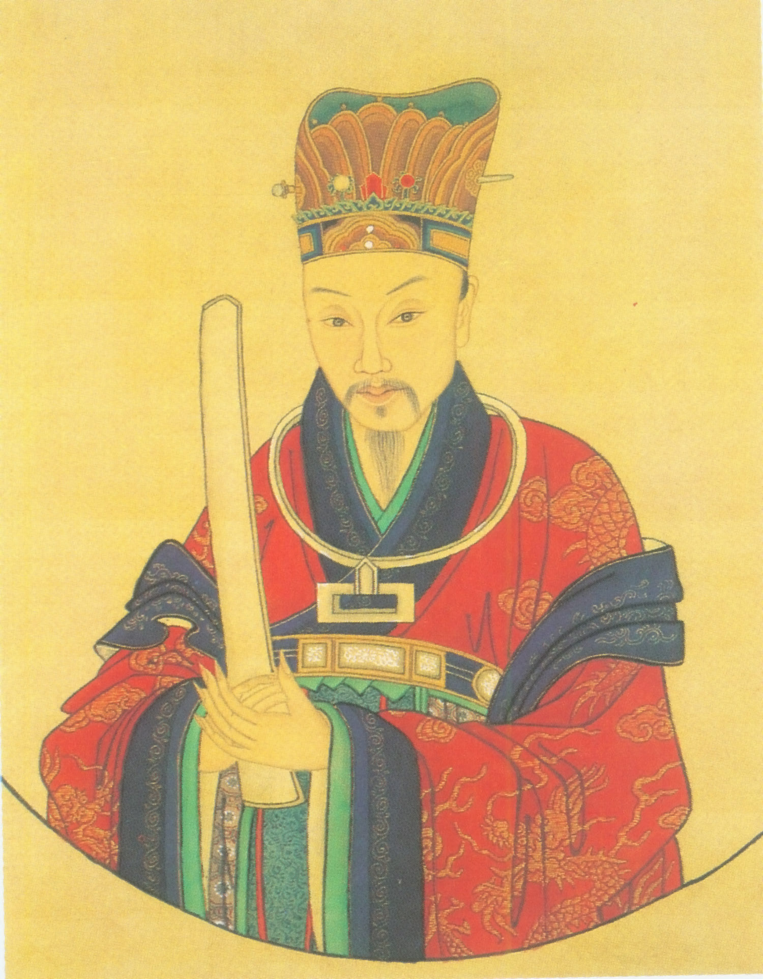 Yan Song